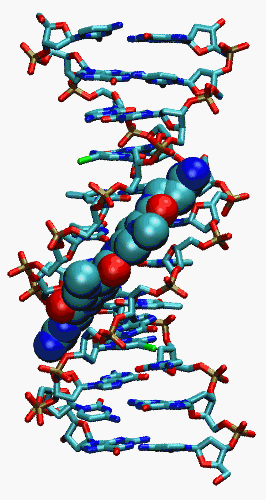 The image was created by Jan Lipfert (the author) from the crystallographic coordinates deposited in the Protein Data Bank, accession code 101D. The software VMD (Visual Molecular Dynamics, was used for image generation.